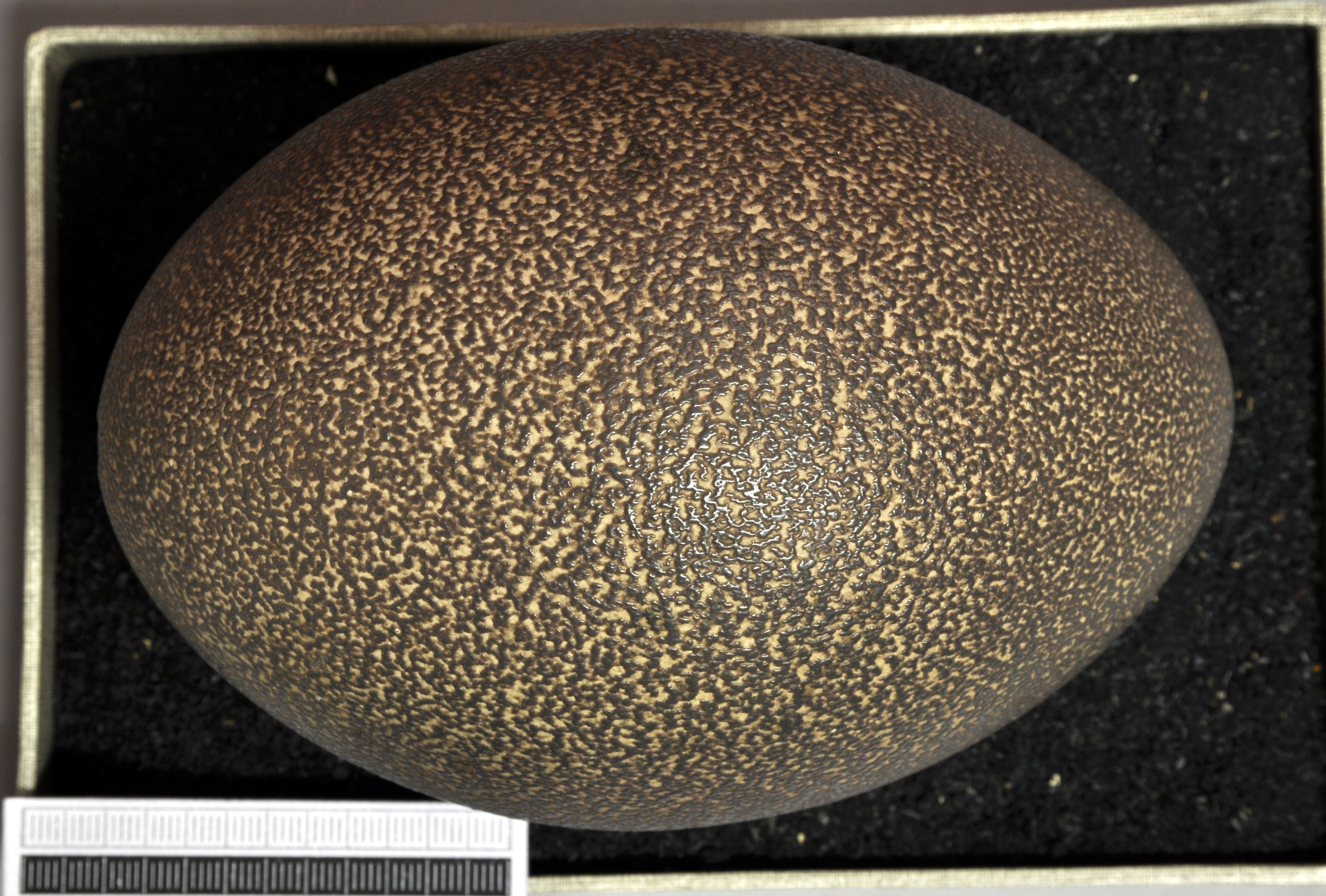 Northern cassowary Casuarius unappendiculatus , egg, Coll. Museum Wiesbaden